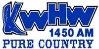 Monarch Broadcasting KWHW 1450 Logo